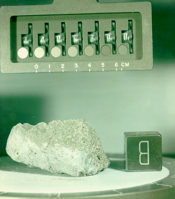 Lunar sample 14053, collected at station C2 of the Apollo 14 mission to the moon in 1971. An ophitic basalt with large, zoned, pyroxene grains surrounding laths of plagioclase.